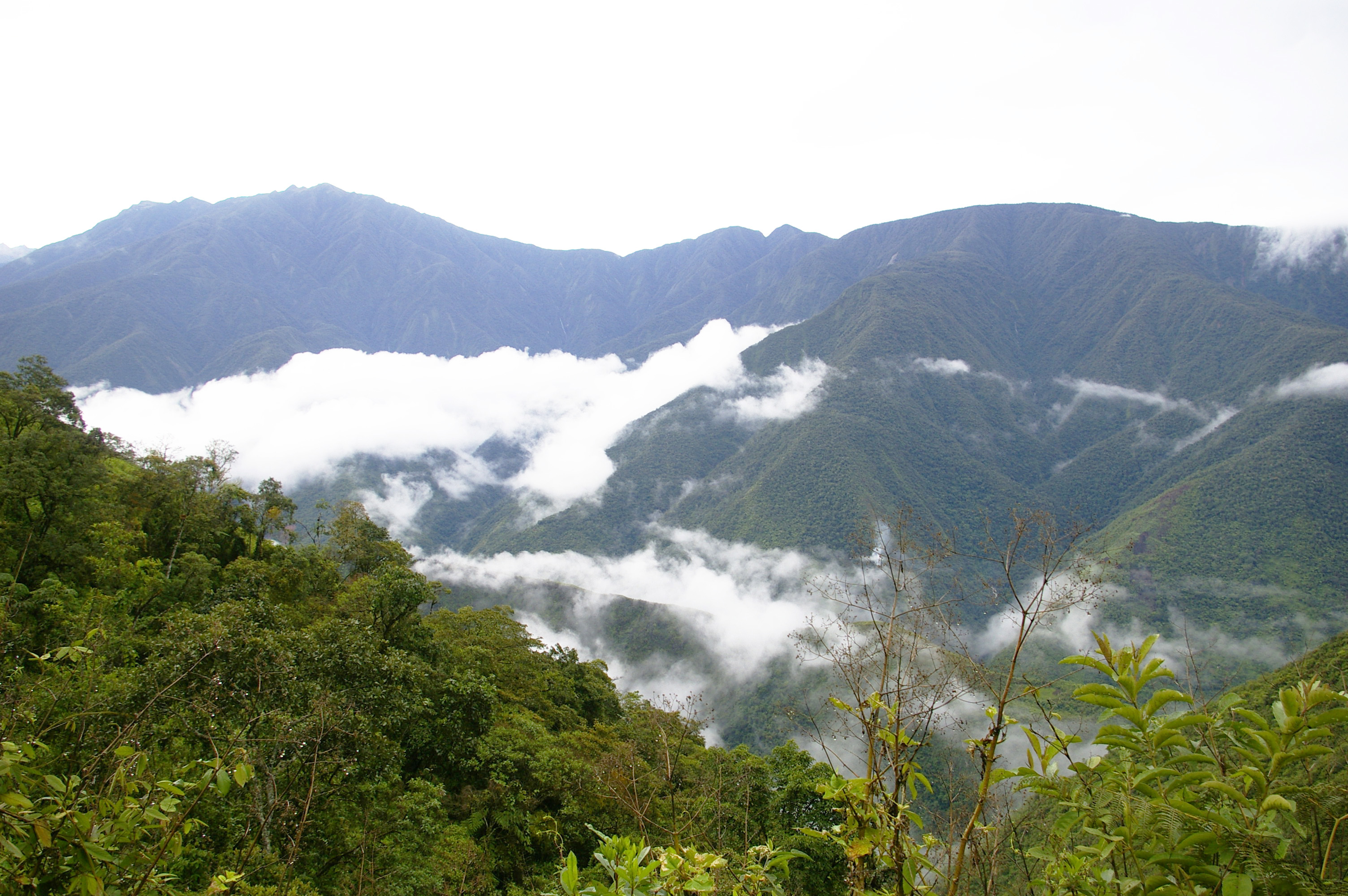 I did a 70km bike ride on what has been dubbed the worlds most dangerous road.